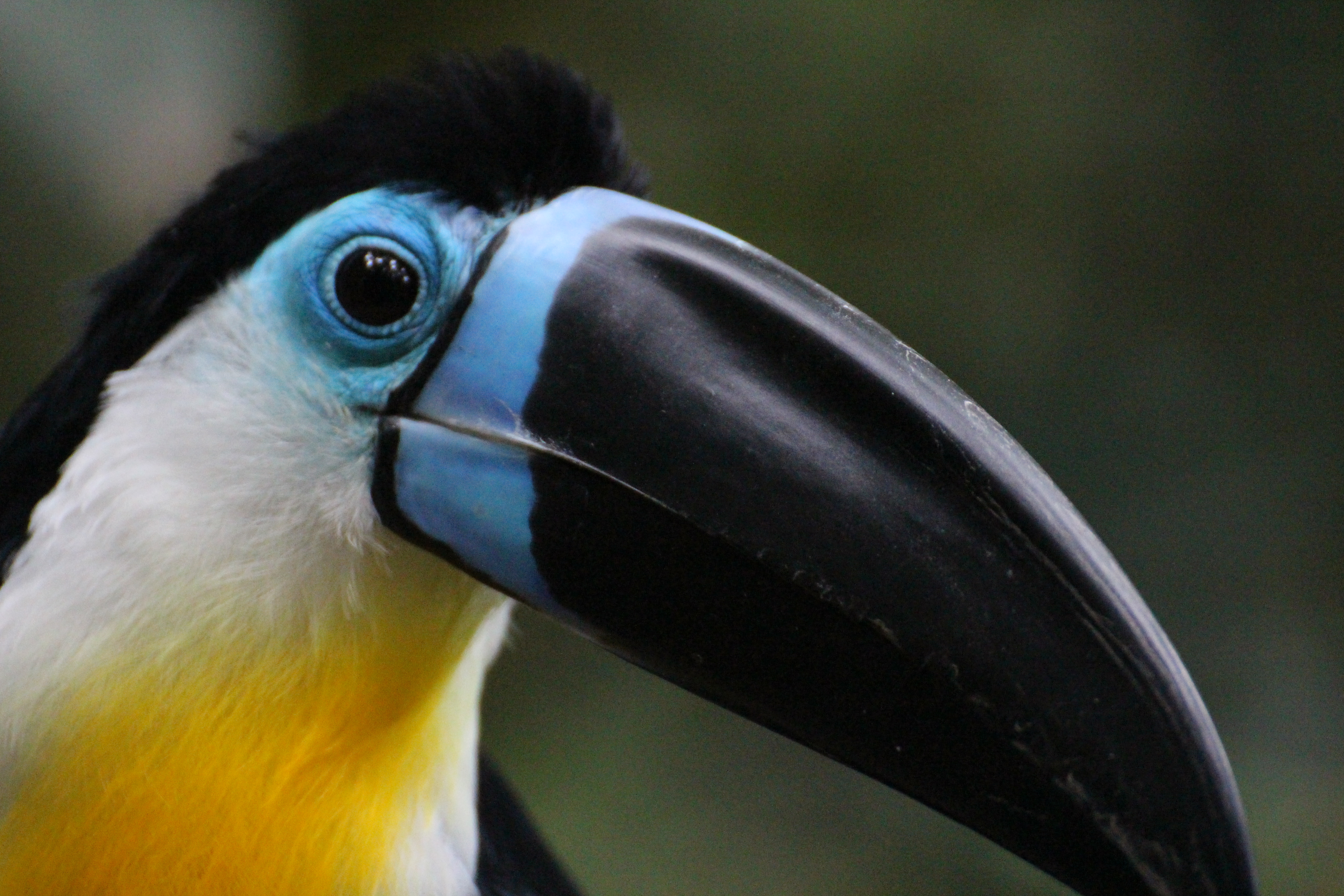 Birds of Eden Toucan